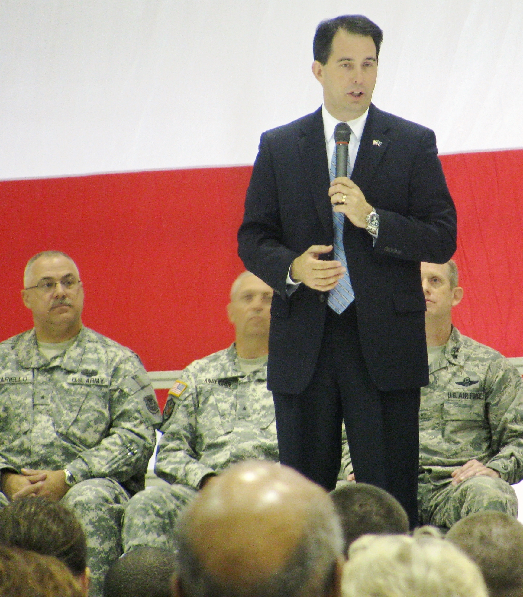 Walker to lead send-off for Guard troops headed for Kosovo